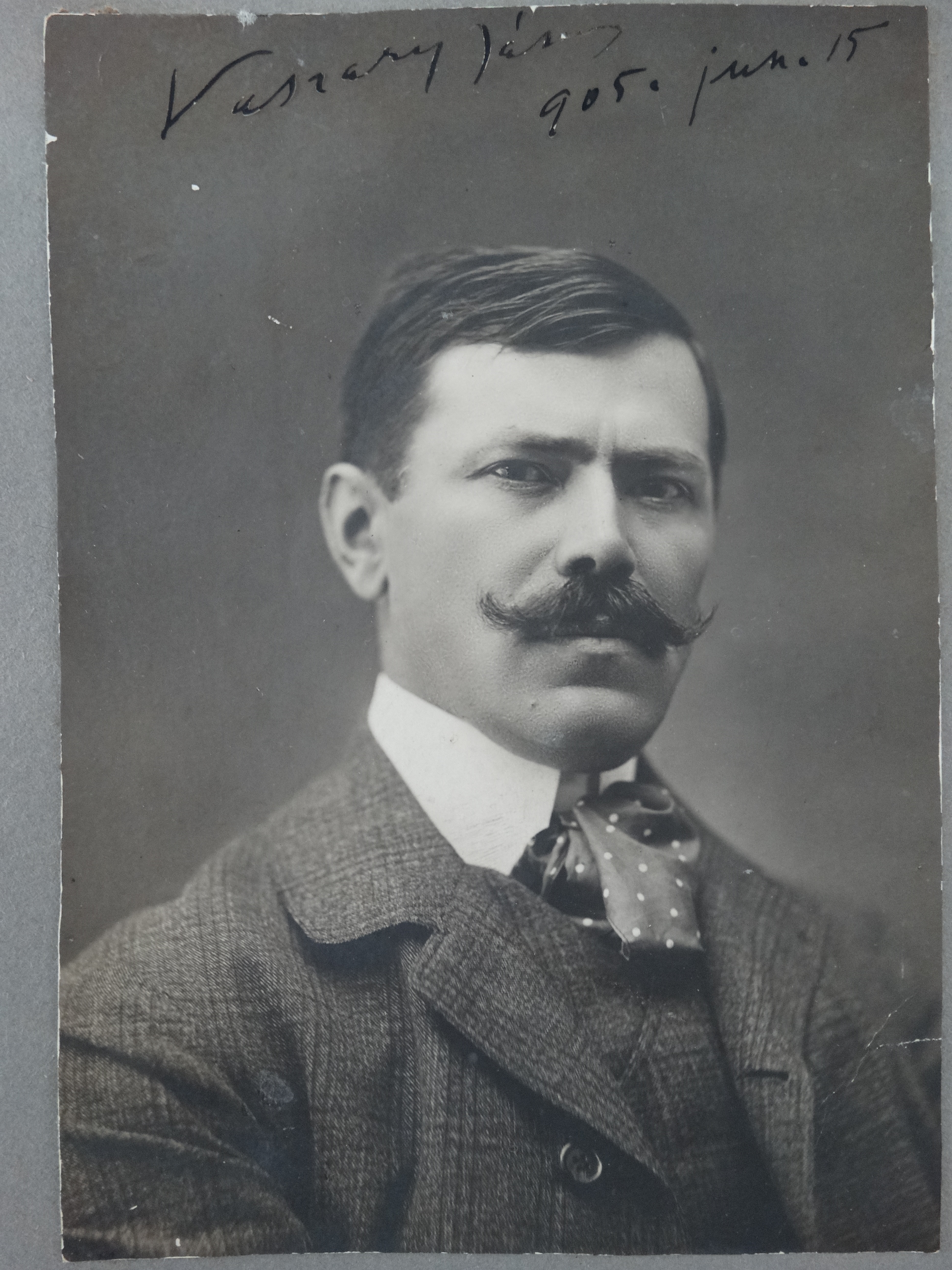 Janos Vaszary, Hungarian painter, 1867-1939.